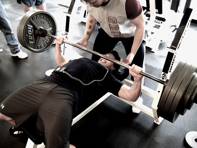 Bench Press